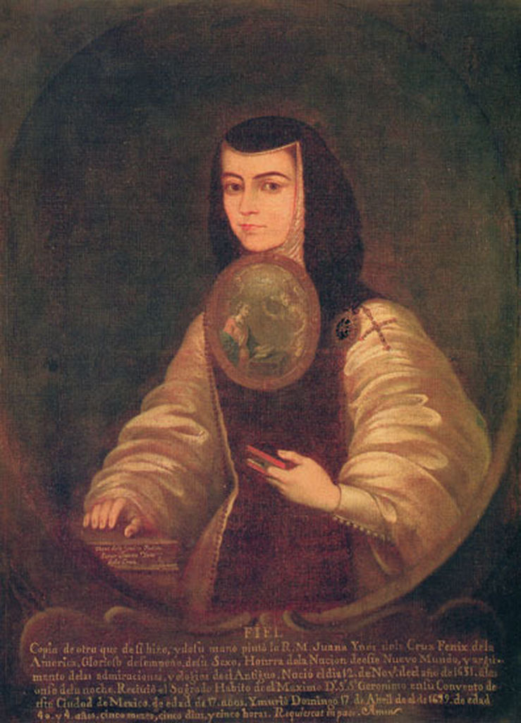 Oil «Puebla-Lamborn» Copy of the portrait made by Fray Miguel de Herrera. (Margo Glantz, Sor Juana Inés de la Cruz: Saberes y placeres, Toluca, Instituto Mexiquense de Cultura, 1996).